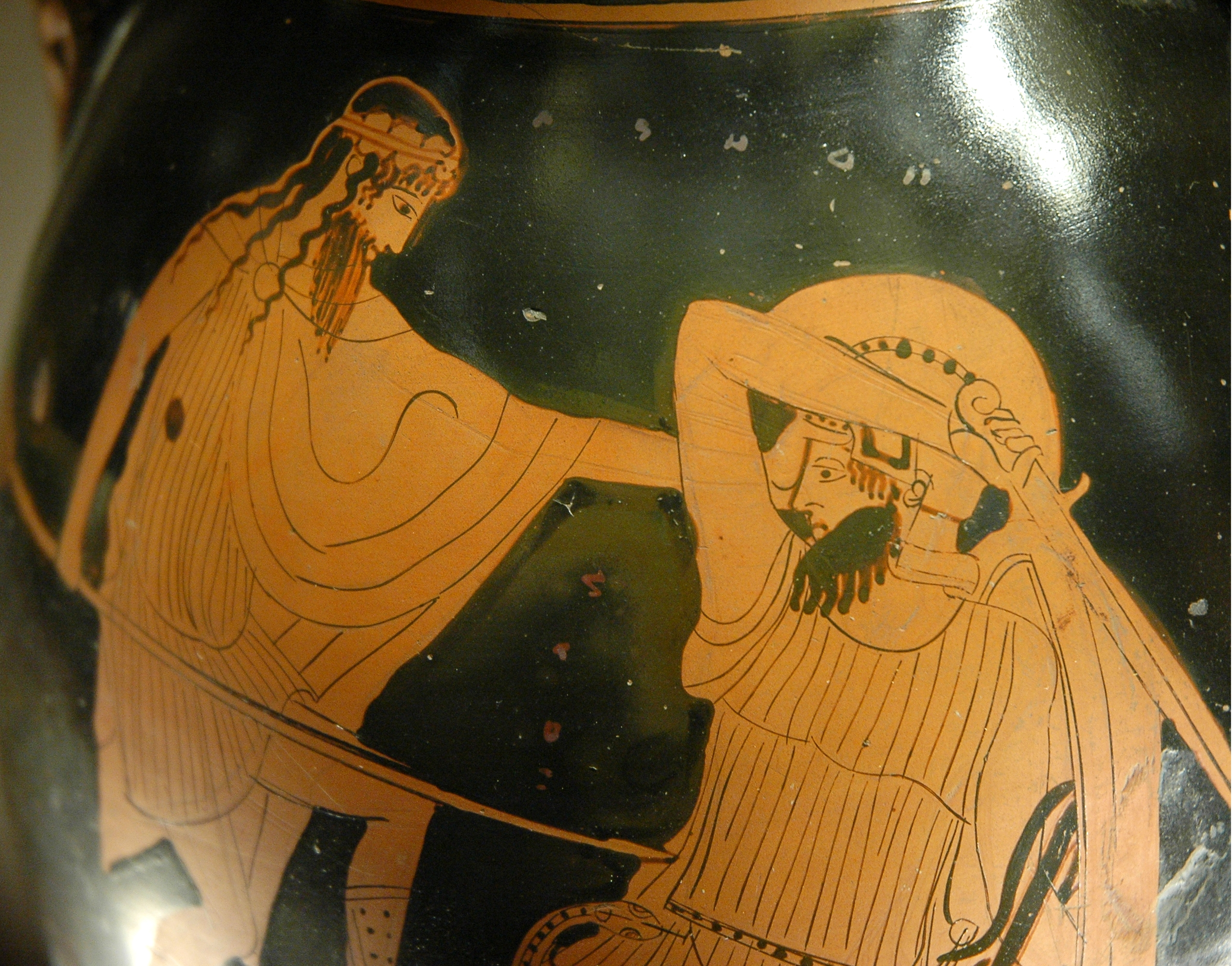 Dionysos fighting the Giant Eurytos during the Gigantomachy. Detail from a red-figure Attic pelike, ca. 460 BC. From Nola.